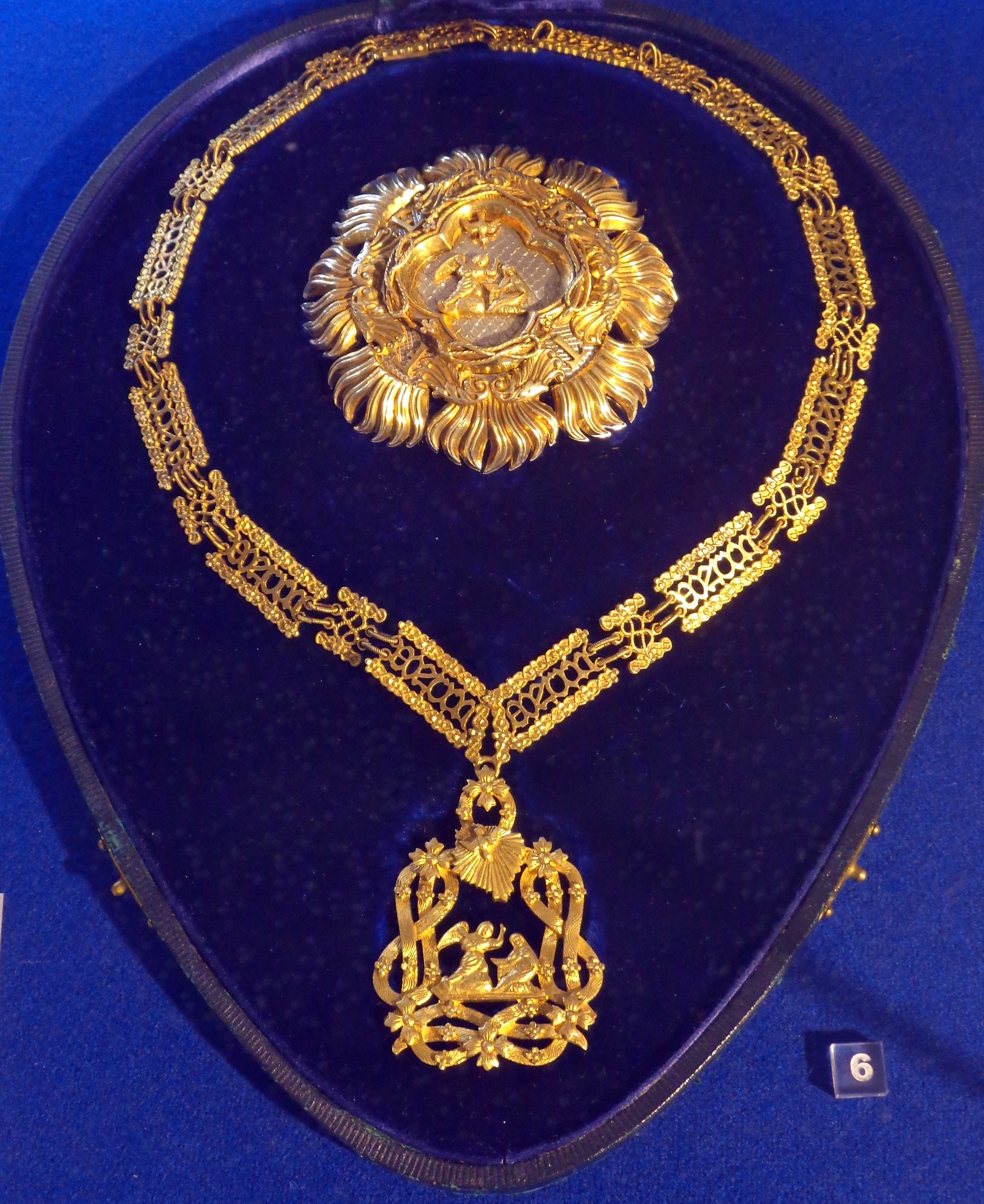 Order of the Most Holy Annunciation, collar, badge and star, 1920-1940. Kingdom of Italy. The exhibition of the Tallinn Museum of Orders of Knighthood, Estonia.